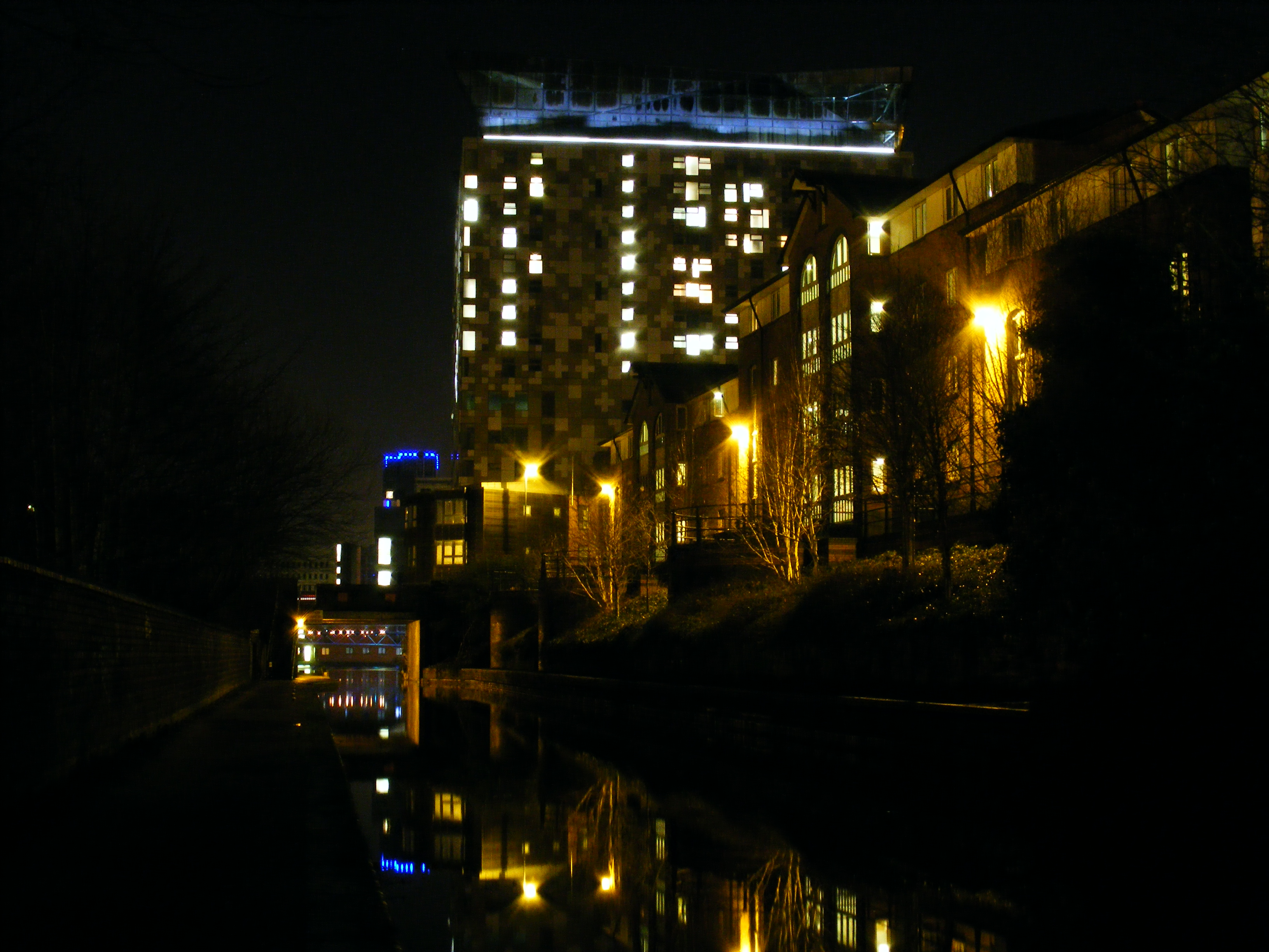 The Cube, Birmingham, night view from the canal.